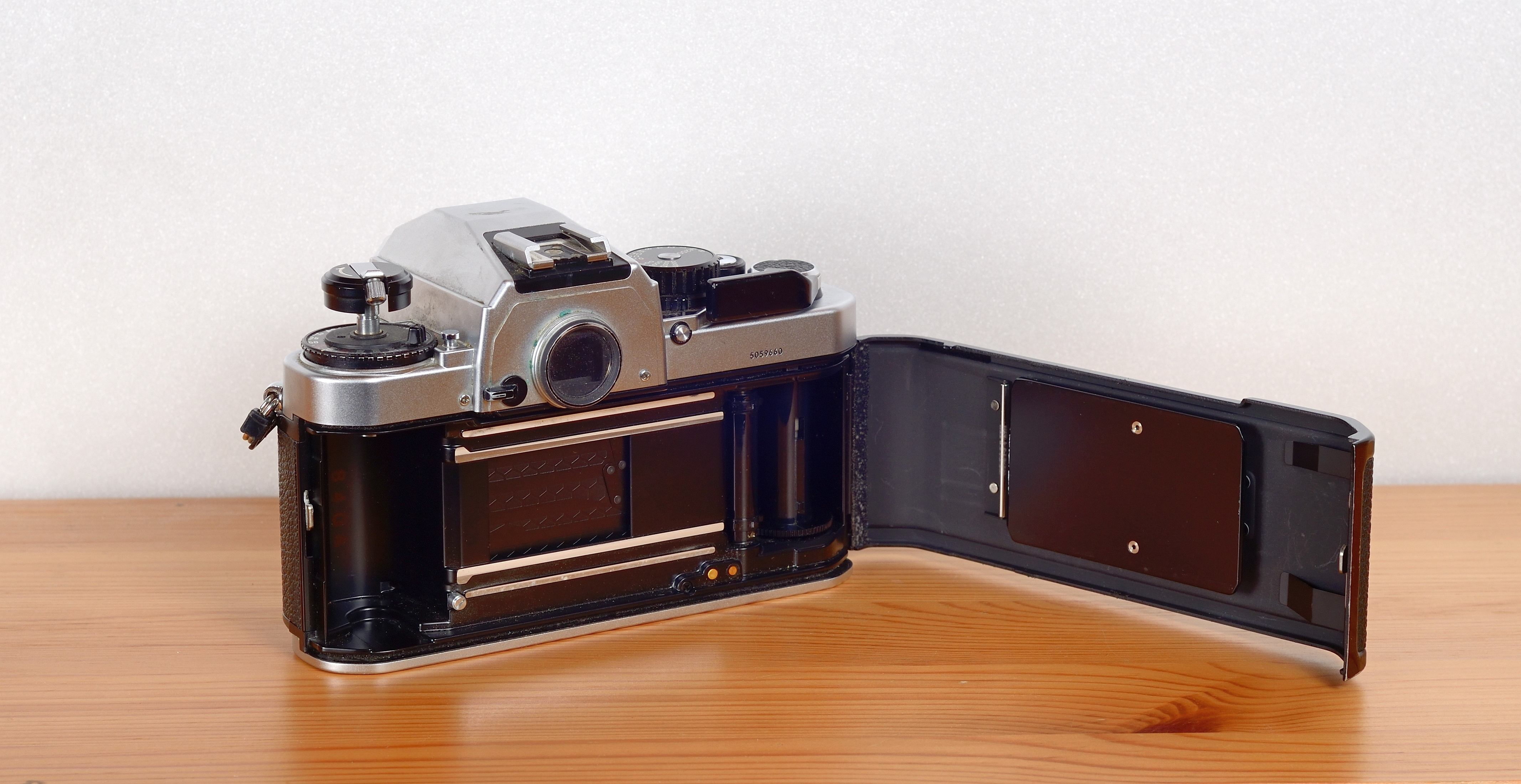 Nikon FA with open back door